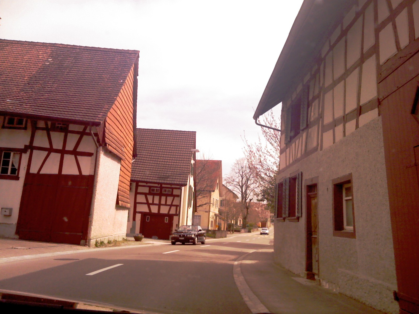 Village center of Oerlingen in the municipality of Kleinandelfingen, Canton Zürich, SwitzerlandEsperanto: Vilaĝocentro de Oerlingen en la komunumo de Kleinandelfingen, Kantono Zuriko, Svislando